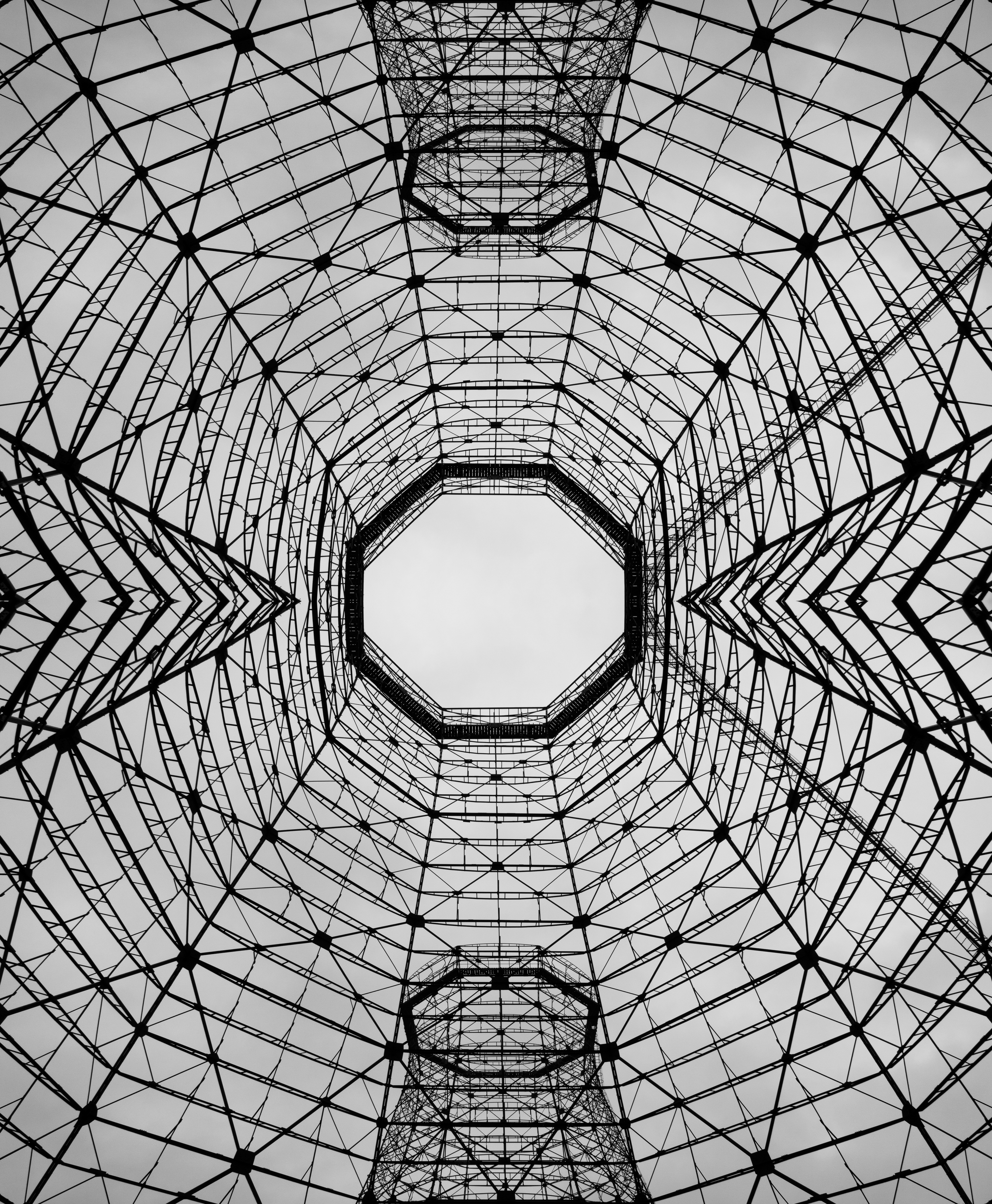 These are cooling towers at the Cooking Complex in the Zollverein Coal Mine Industrial Complex (German Zeche Zollverein) which is a large former industrial site in the city of Essen, North Rhine-Westphalia, Germany. It has been inscribed into the UNESCO list of World Heritage Sites since December 14, 2001, and is one of the anchor points of the European Route of Industrial Heritage.